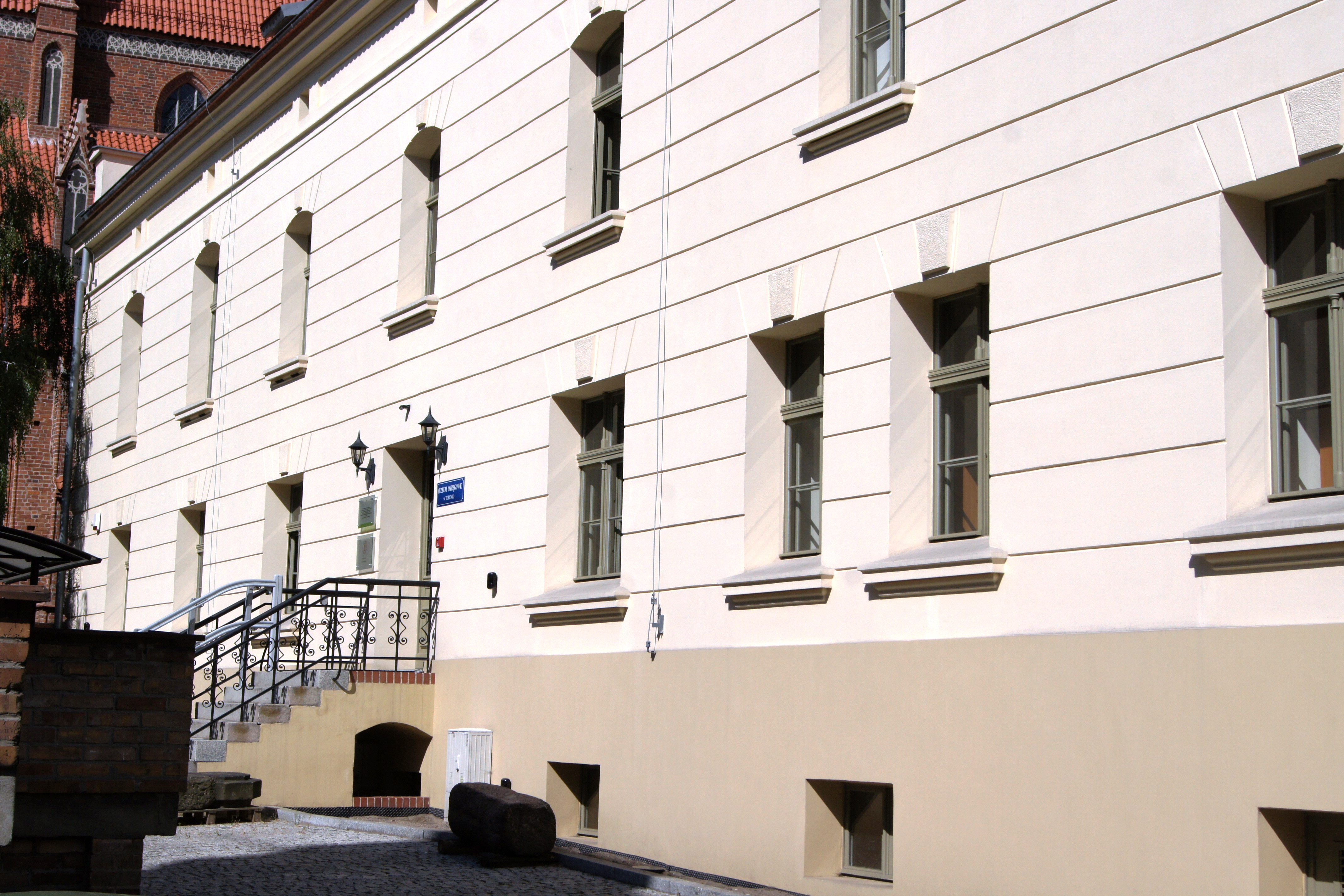 Toruń, 20a św. Jakuba Street - former Benedictines' monastery, now archive and library of Regional Museum, late 16th century, 1667, 1831, 2nd half of 19th century.